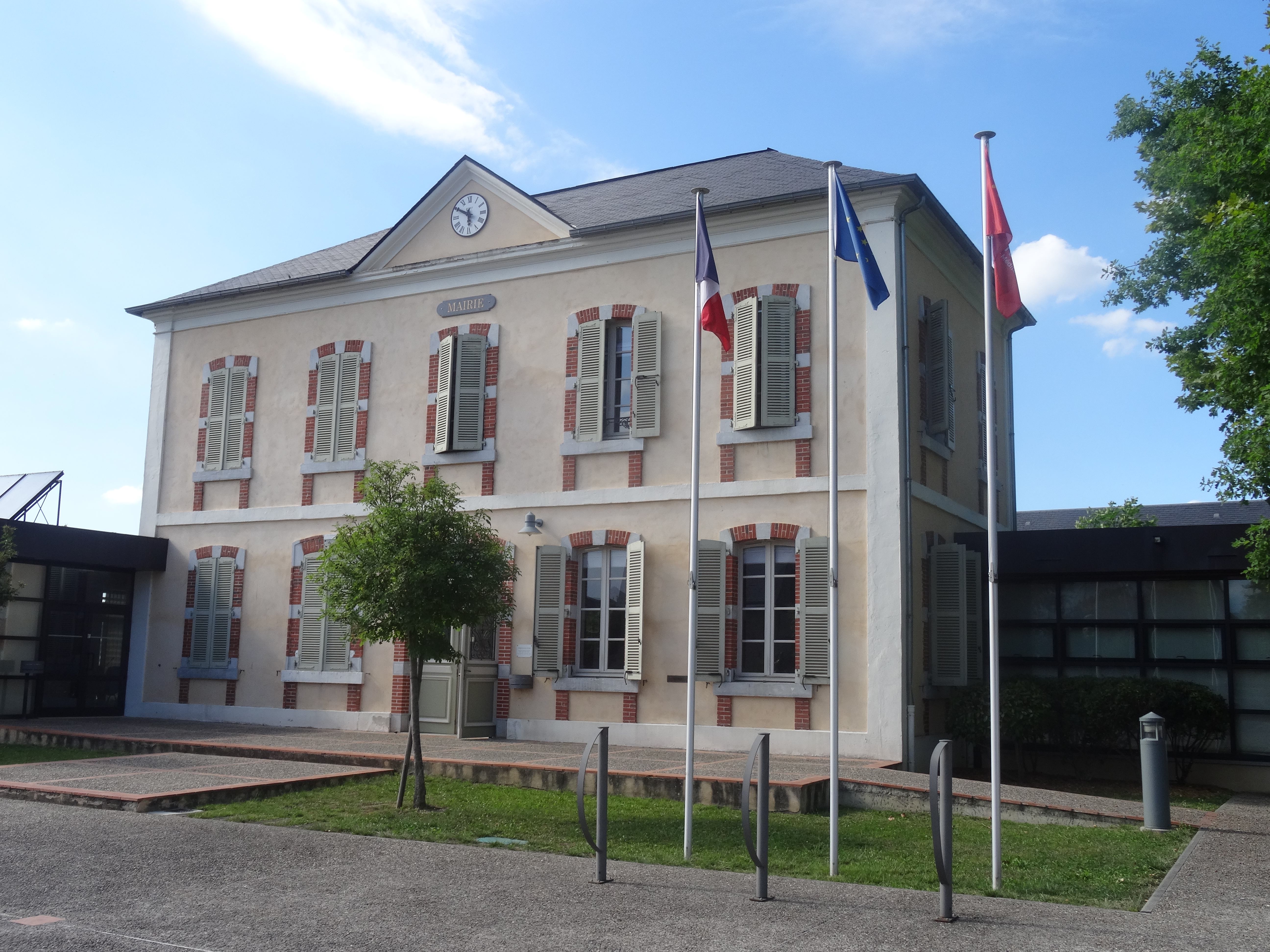 Mairie de BARBAZAN-DEBAT (65)